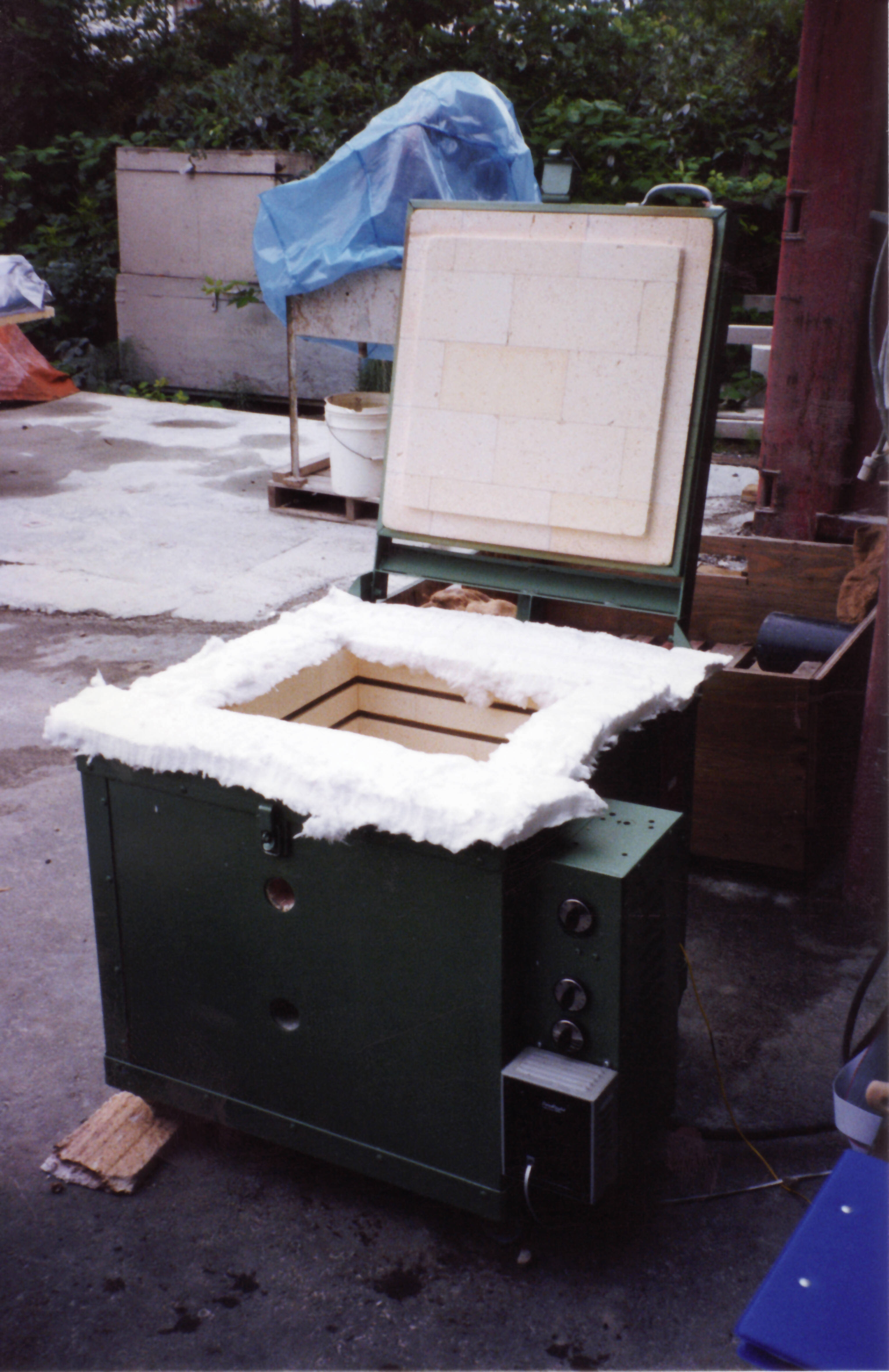 Electric furnace fitted with a ceramic fibre insulation gasket to accept a test sample on top.